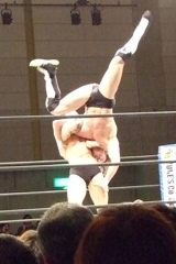 Professional wrestler Prince Devitt performing a "Bloody Sunday" on Kenny Omega.